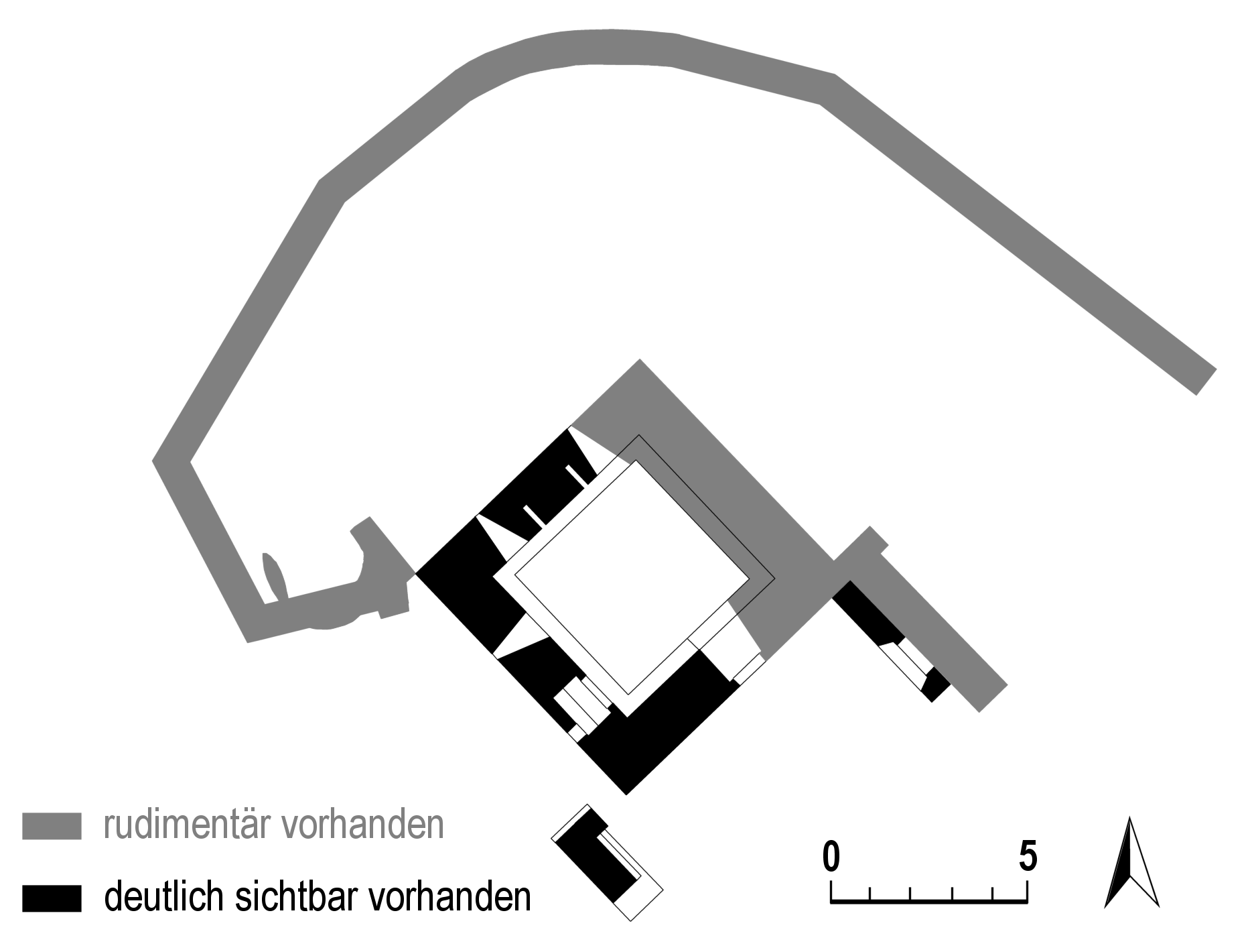 Floor plan of the Kattenturm in Essen